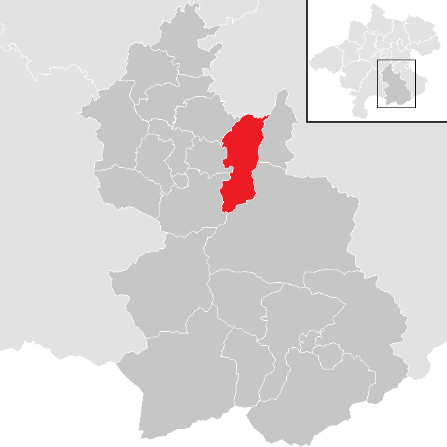 district Kirchdorf an der Krems